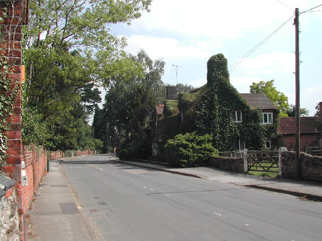 Main Street, Epperstone Village.